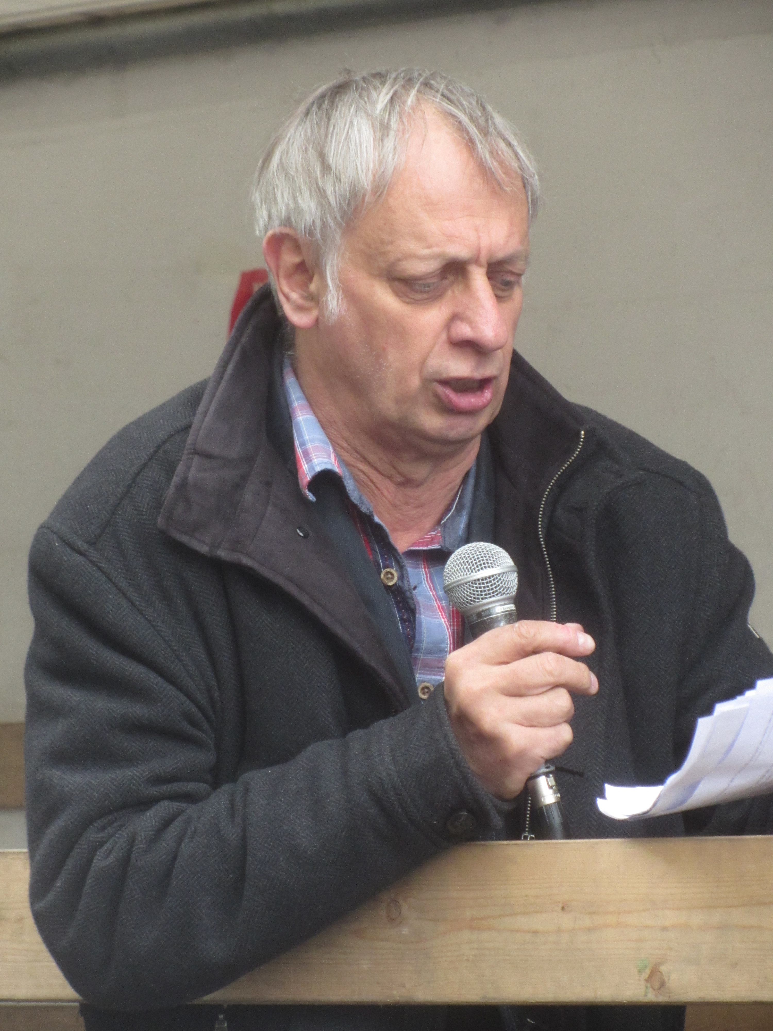 Winfried Wolf speaks at the opening rally of the march in defense of the right to strike on April 18, 2015, in Frankfurt on Main, Germany